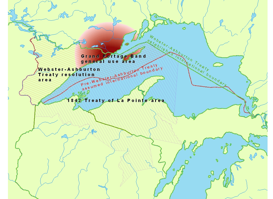 Map of Lake Superior region showing the 1842 Webster-Ashburton Treaty area and the 1842 Treaty of La Pointe area, their overlap over Isle Royale, which precipitated the need for the 1844 Isle Royale Agreement with the adhesion of the Grand Portage Band to the 1842 Treaty of La Pointe.